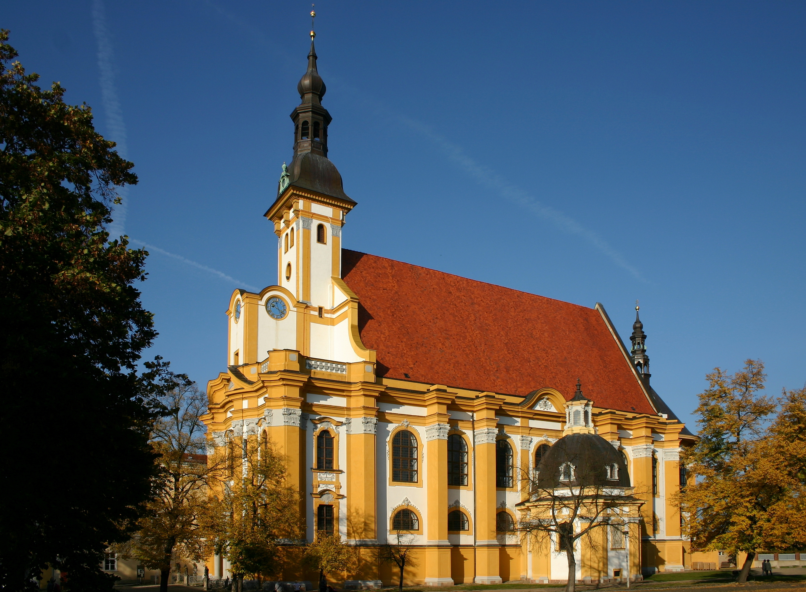 Church of Neuzelle abbey from south west.